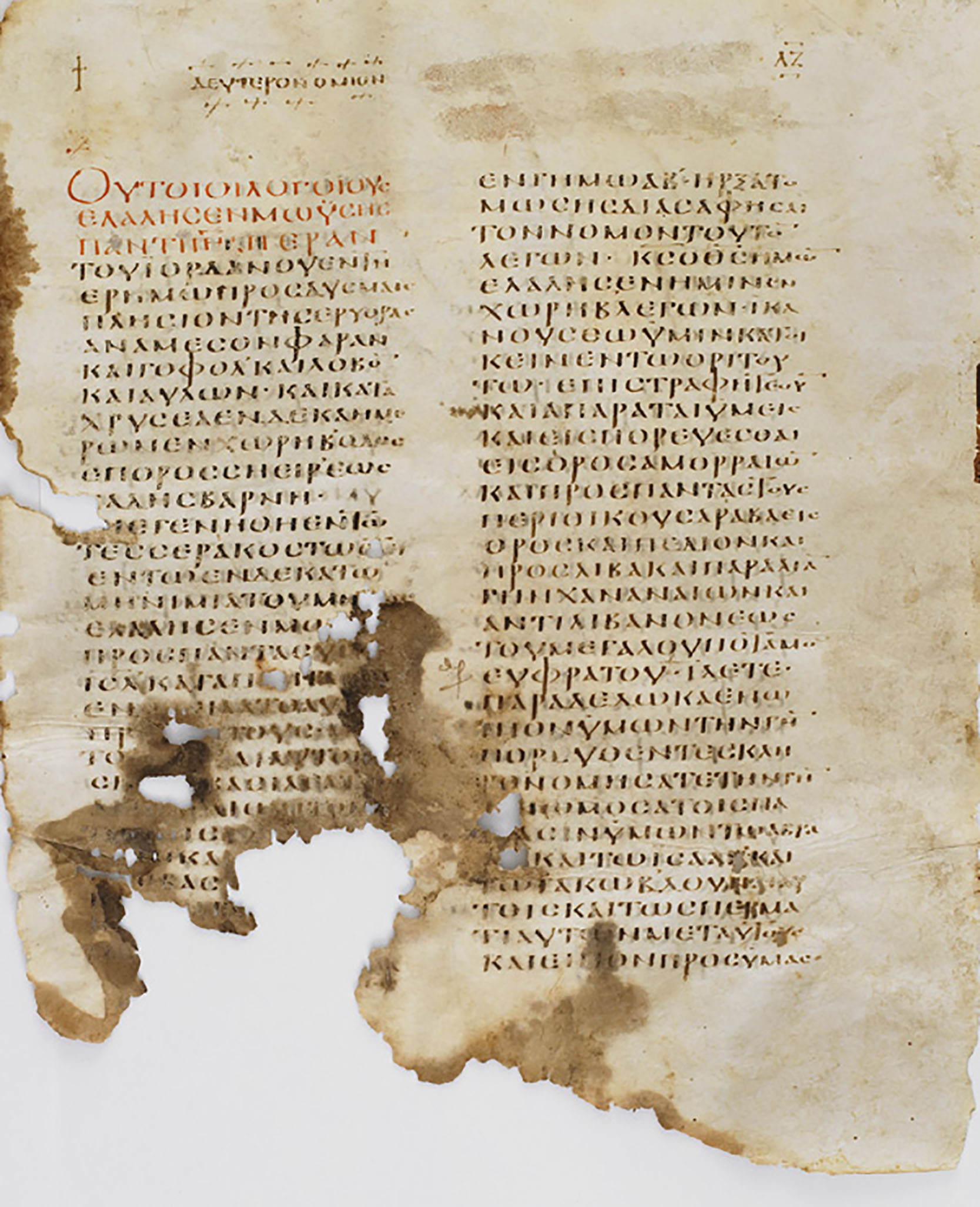 Washington Manuscript I - Deuteronomy and Joshua (Codex Washingtonensis) early 5th century Ink on parchment H: 30.6 W: 25.8 cm Egypt Gift of Charles Lang Freer F1906.272 This parchment codex comprises one hundred two leaves divided into quires (booklets). Each quire is numbered on the first page. Because the numbers begin with 37 and continue through 60, it is clear that the first thirty-six quires are missing-likely the books of Genesis through Numbers. Chapter divisions of irregular length are signaled by an enlarged initial letter outside the left margin. The manuscript also offers an early example of rubrication (from the Latin rubricare, "to color red"), writing in red ink to give visual emphasis to the divisions of a text. Rubrication became a common practice in European manuscripts beginning in the seventh century. Various scribes worked on this manuscript, but only two hold much interest. One, probably contemporary with the original scribe, made some corrections. A century or two later, another scribe noted in a cursive script where a reading was to begin and end, and when the reading was to be done.